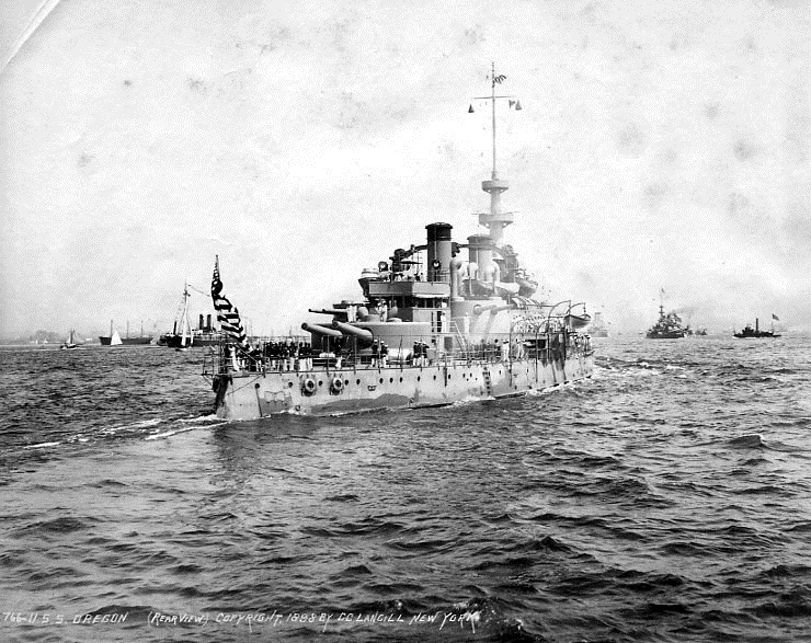 Oregon (BB-03) underway in New York Harbor during the Spanish-American War victory naval review, August 1898 NH 105573